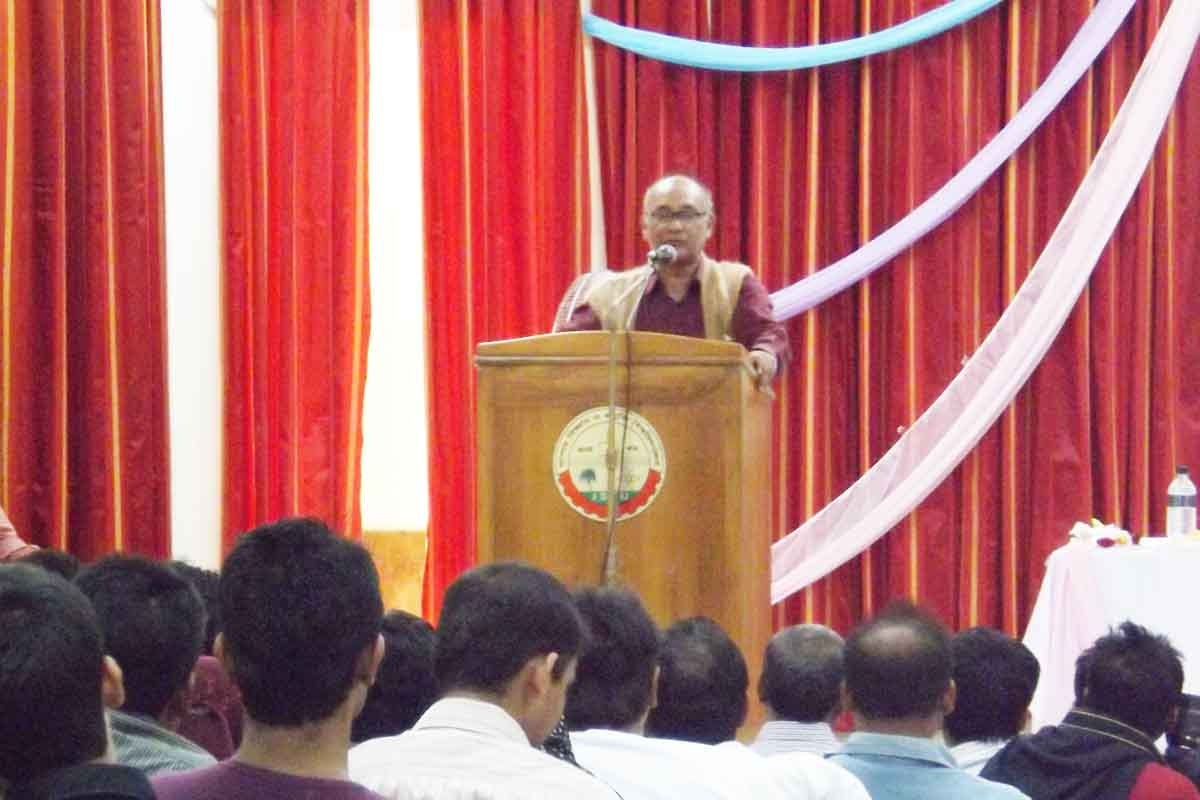 Jessore University of Science and Technology (JUST)'s vc Prof. Dr. Abdus Sattar deliver his lecture at Auditorium/Gallery